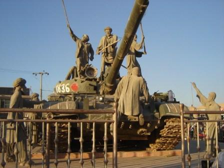 darb qandahar herat